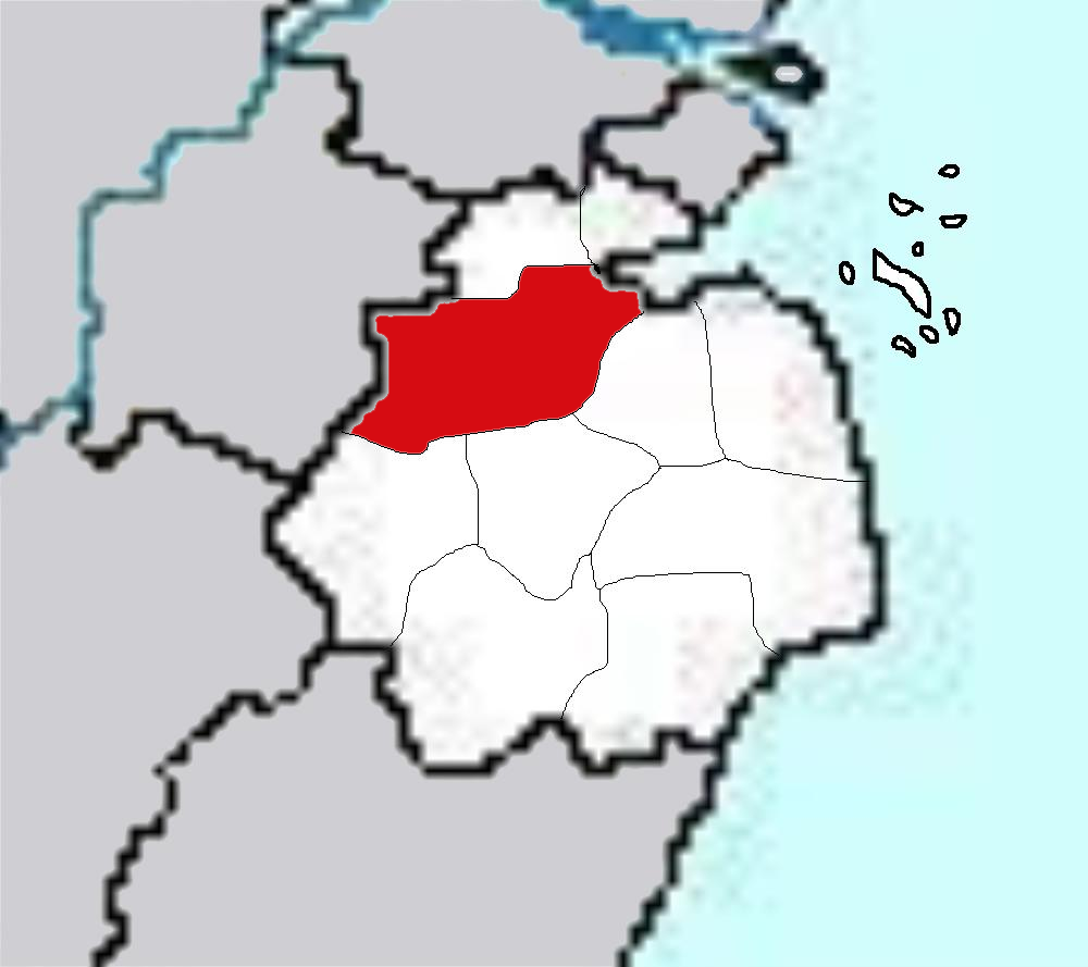 Maps of Zhejiang Province of China